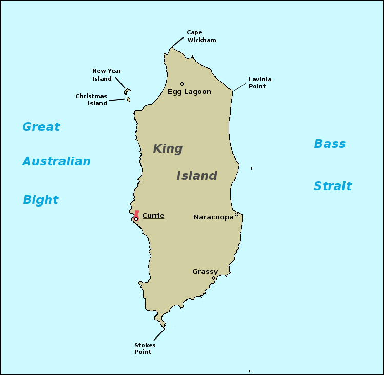 Map of King Island (Australia), located between Tasmania and the Australian continent